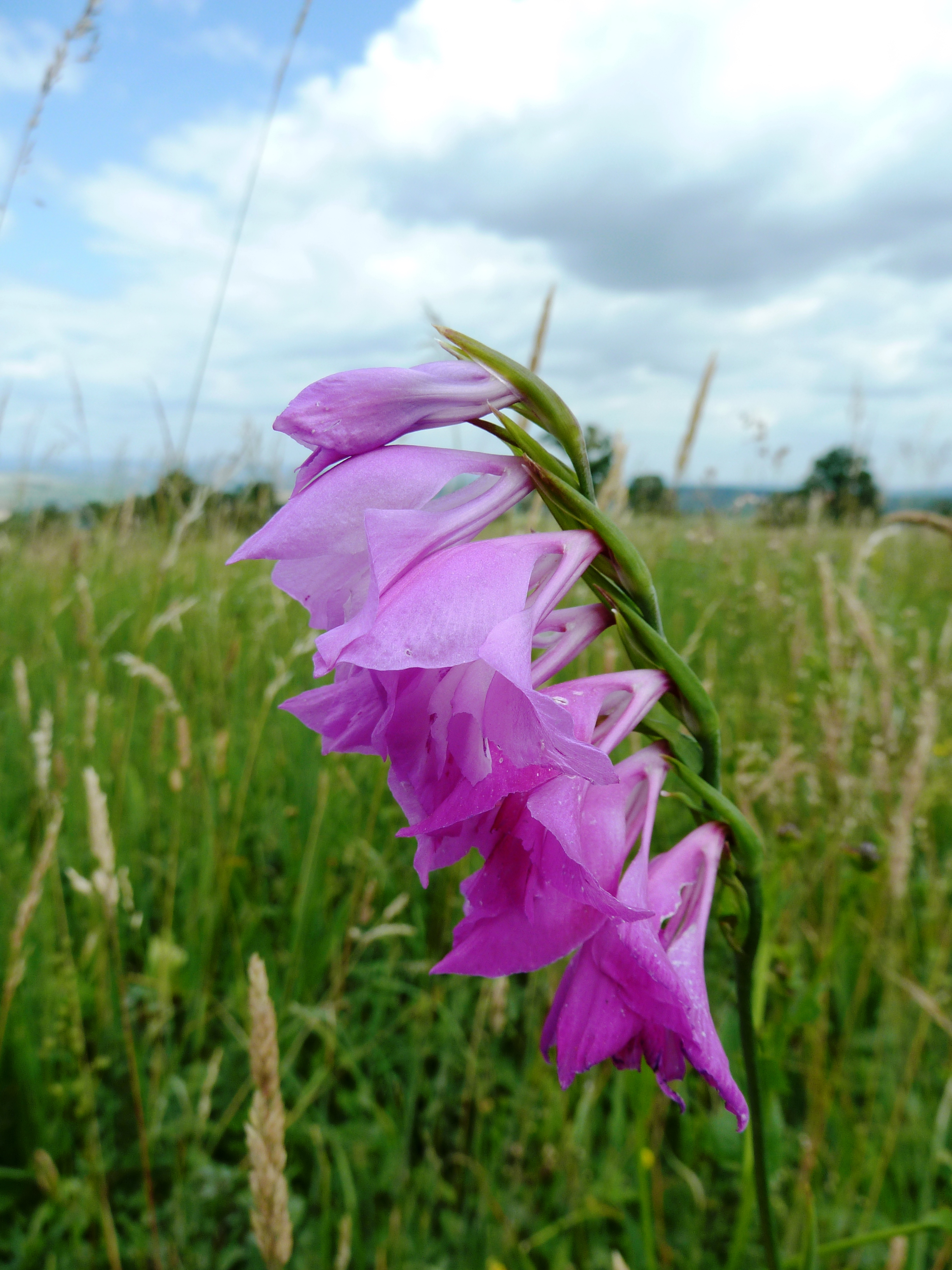 Gladiolus imbricatus in National nature monument Búrová in Protected landscape area Bílé Karpaty (south-eastern Moravia, Czech Republic)